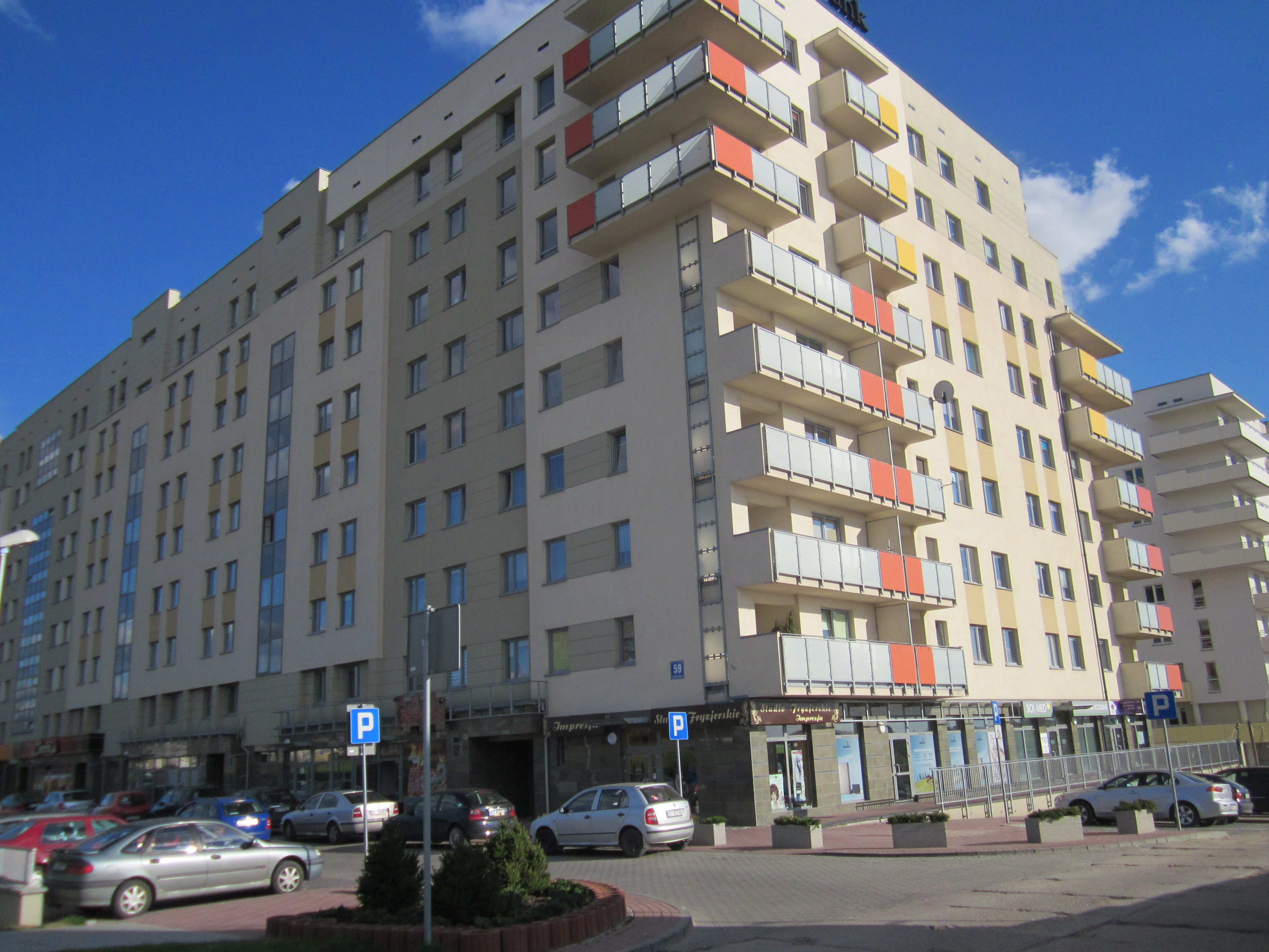 Sunny Terraces (Słoneczne Tarasy) in Białystok, at 59 Jana Pawła II Avenue. High-rise condominium.